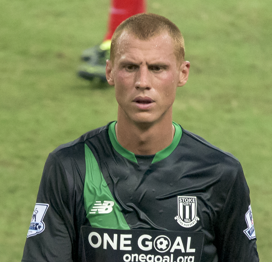 steve sidwell stoke city fc 2015 barclays asia trophy singapore